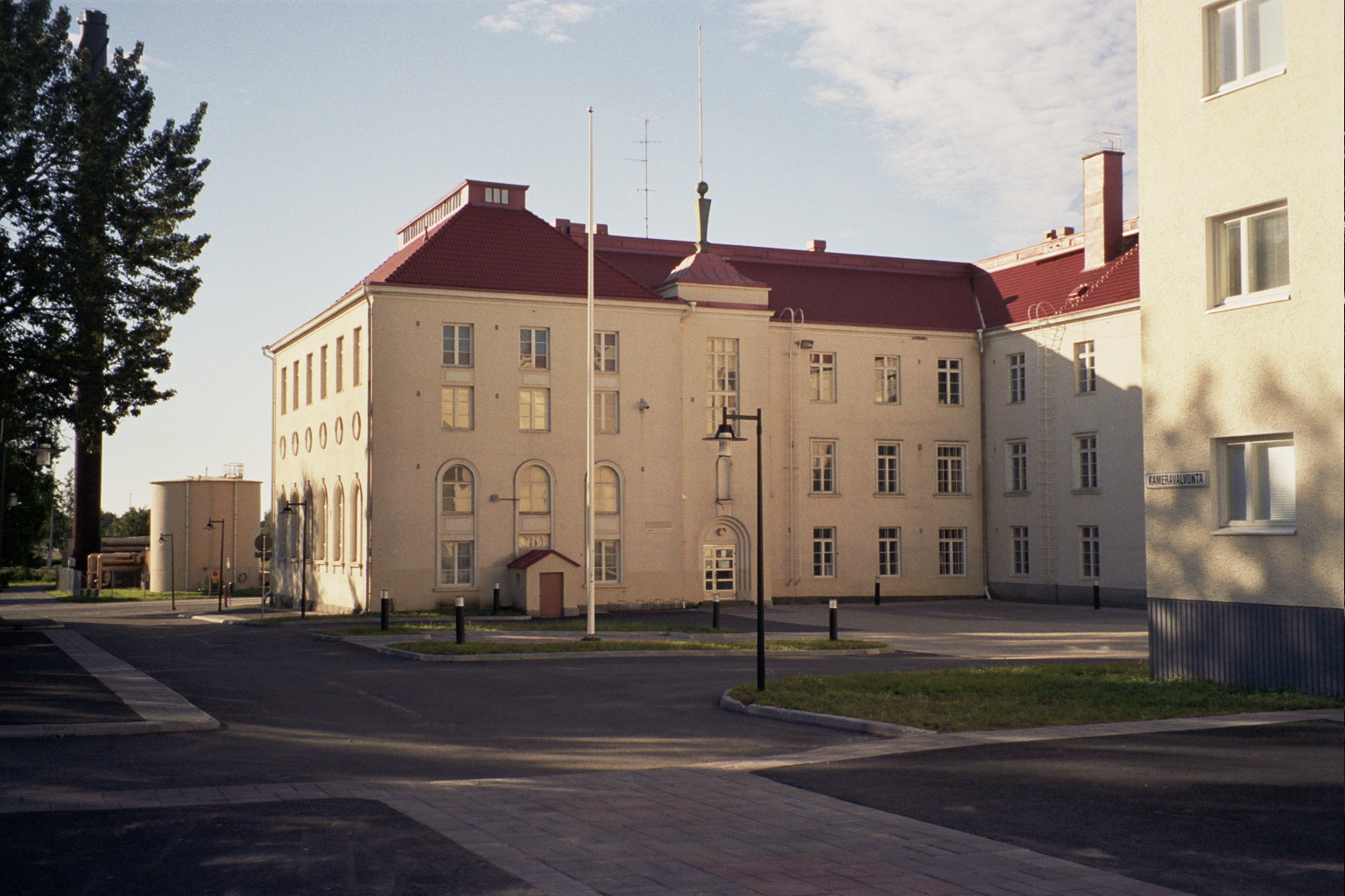 Suensaari school in Tornio, Finland. The building was constructed in the early 1900s and originally served as a Russian barrack. In 2008 it houses a gymnasium (Tornion yhteislyseon lukio), but a few years ago there were also three grades of comprehensive school (grades 7–9 in the Finnish school system).